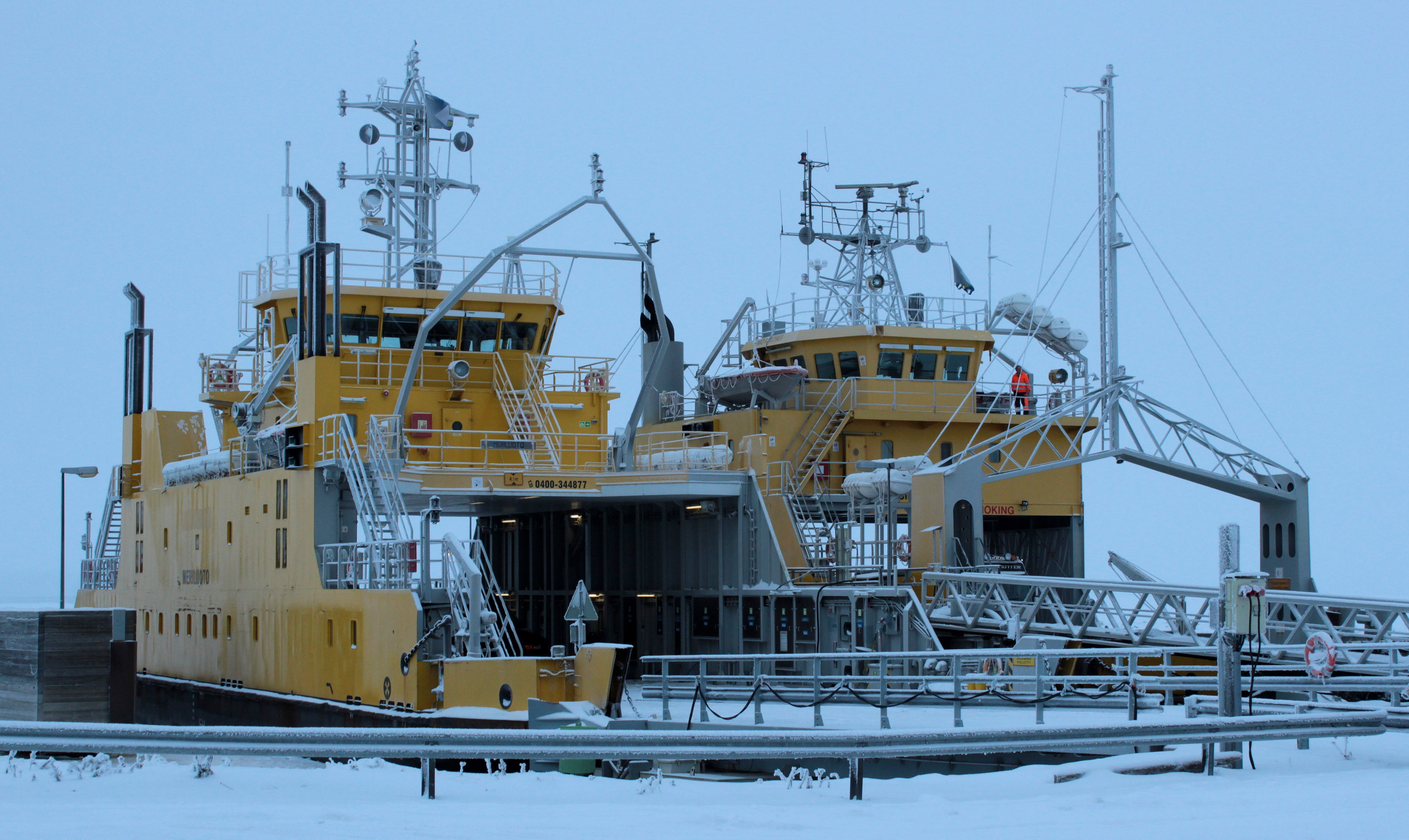 Road ferry Merisilta approaching the Riutunkari dock in Oulu. Road ferry Meriluoto on the background.